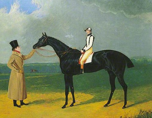 Painting of the racehorse Jerry by John Frederick Herring (1795-1865). Artist dead for 147 years.